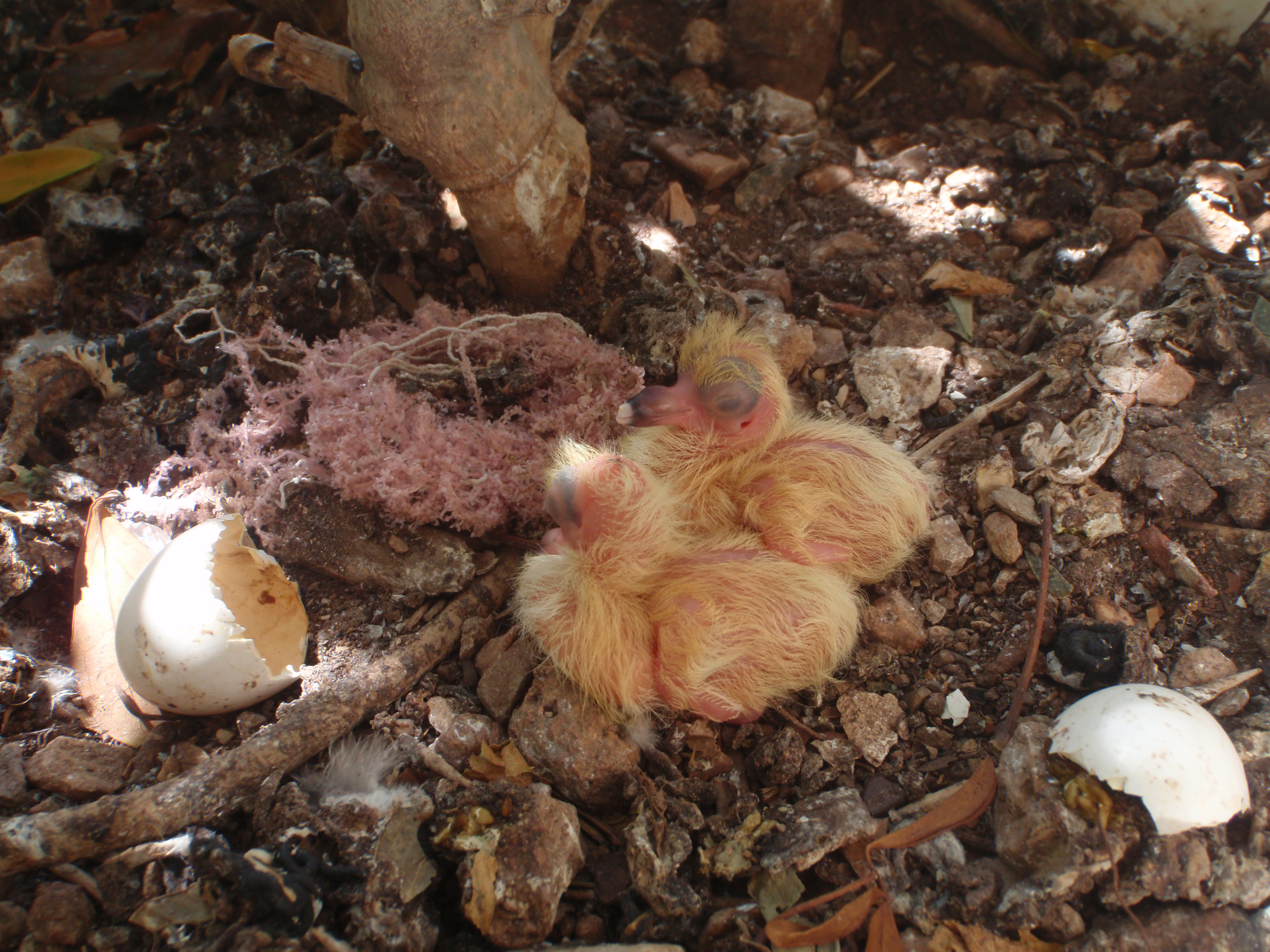 Newborn pigeons (one day old)Mvskoke: Νεογέννητα περιστέρια (μιας ημέρας)